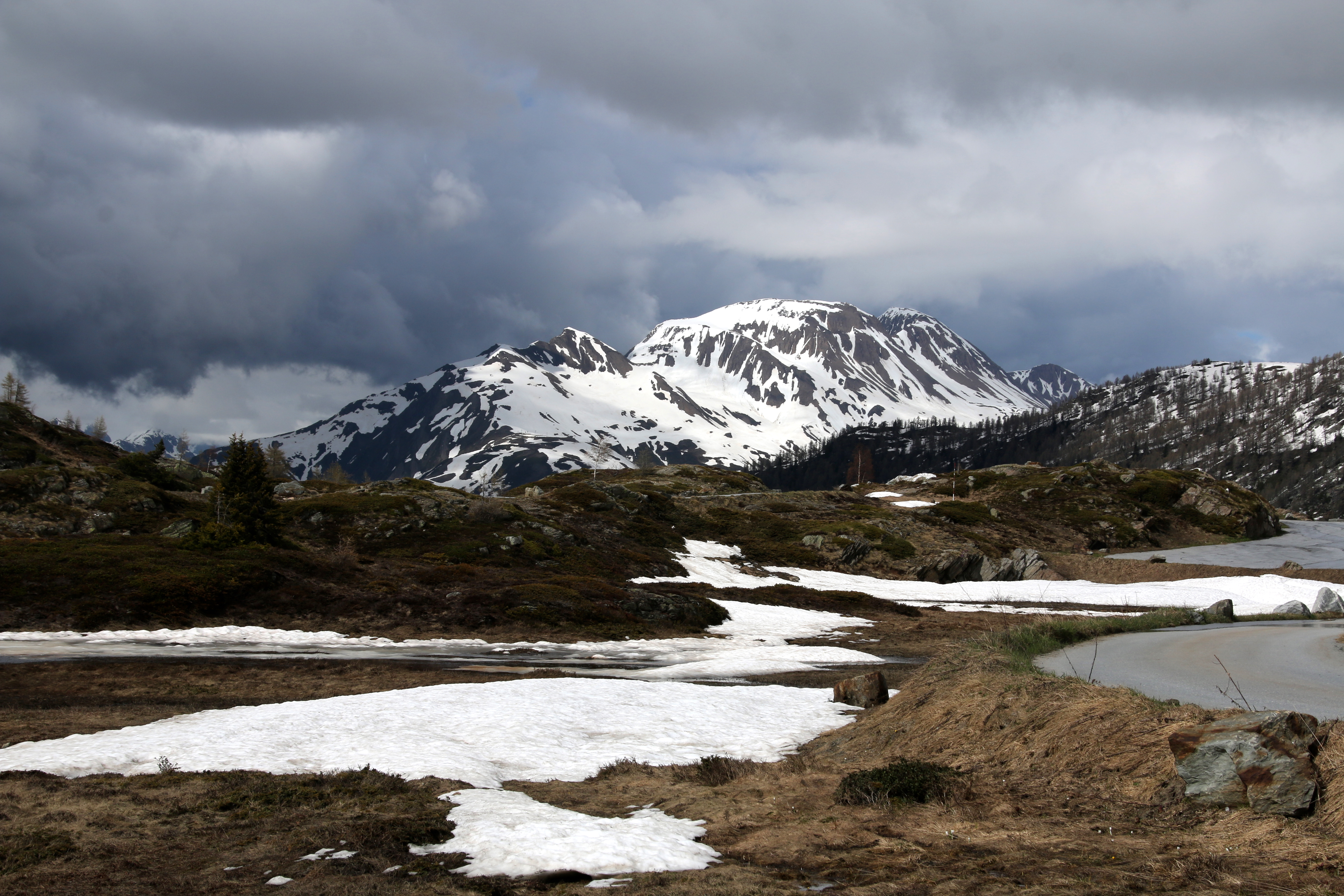 Blättlihorn 2952m seen from Simplon Pass (May 2018)